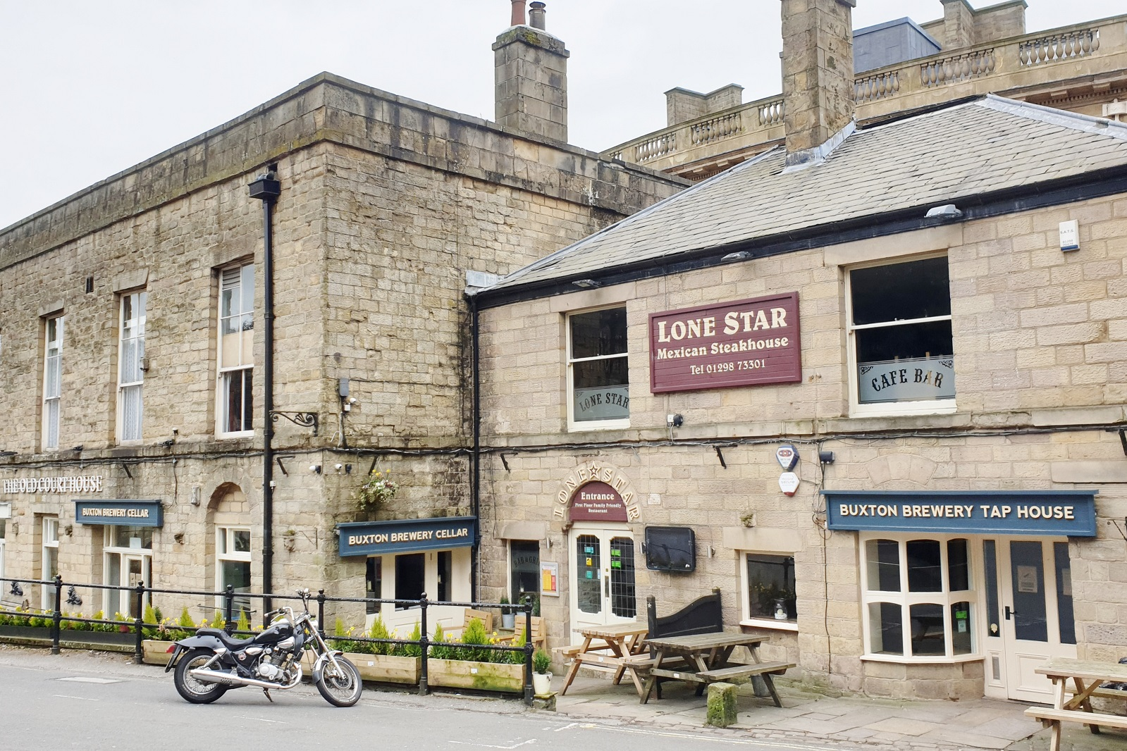 Buxton Brewery Tap House